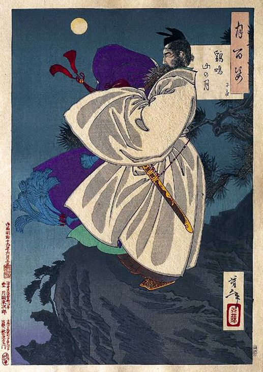 Mount Ji Ming moon (Keimeizan no tsuki)